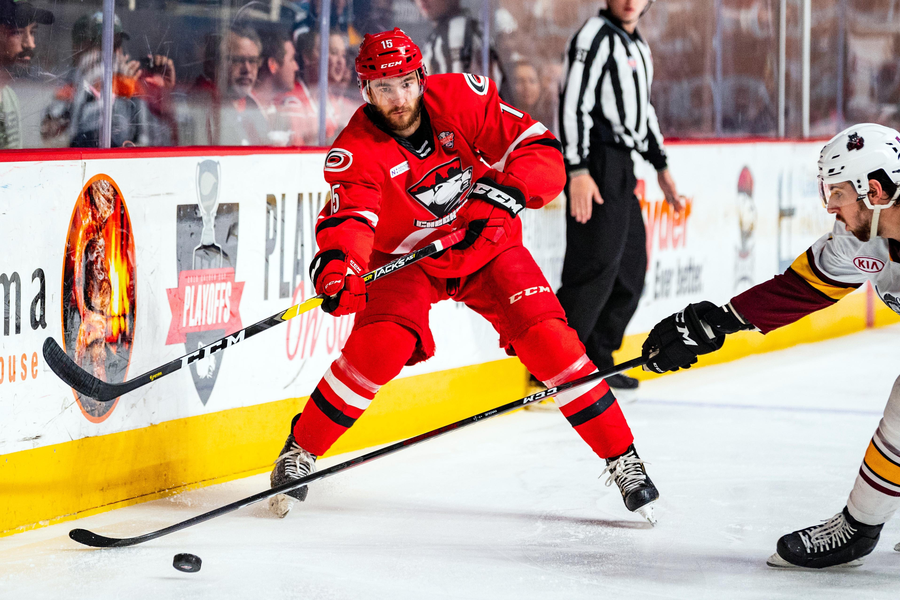 Photo: Jacob Kupferman